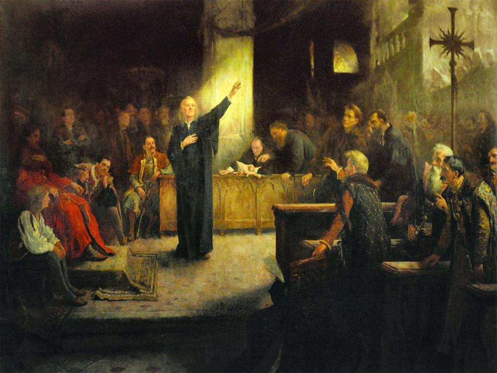 Painting by Aladár Körösfői-Kriesch: "Ferenc Dávid's speech to the Diet of Turda in 1568".